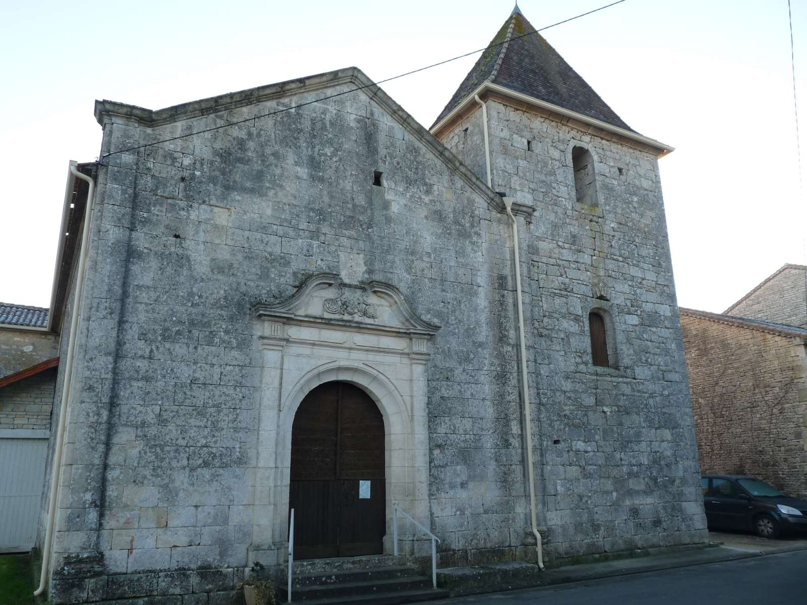 church